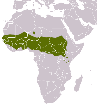 Patas Monkey (Erythrocebus patas) range